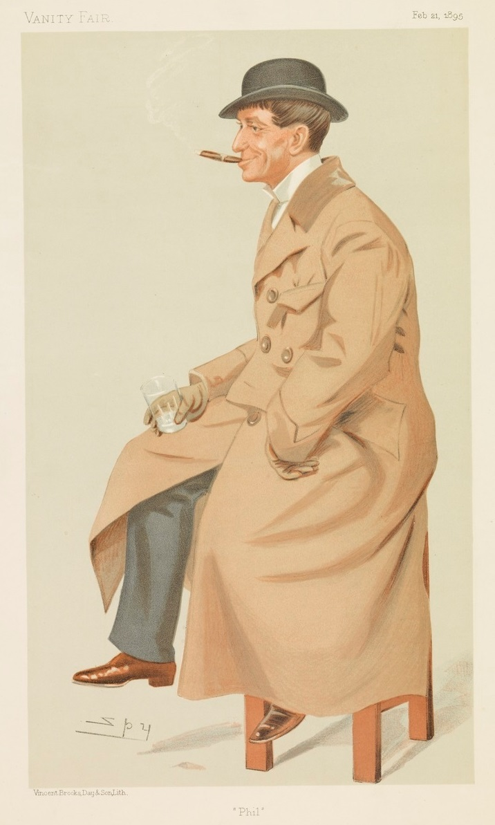 "Men of the Day," Vanity Fair, 21 February 1895.